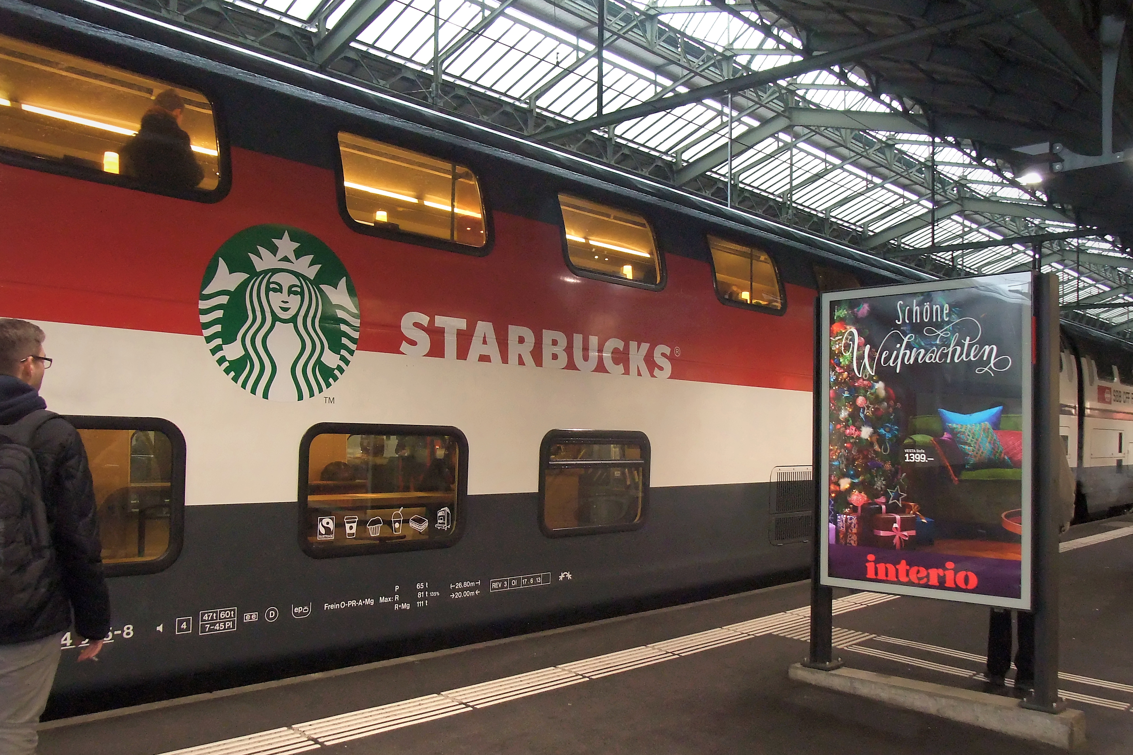 The latest variant in the dining car business. Since 21 November 2013 on the IC line between St. Gallen and Geneva. St. Gallen, Switzerland, Nov 23, 2013.